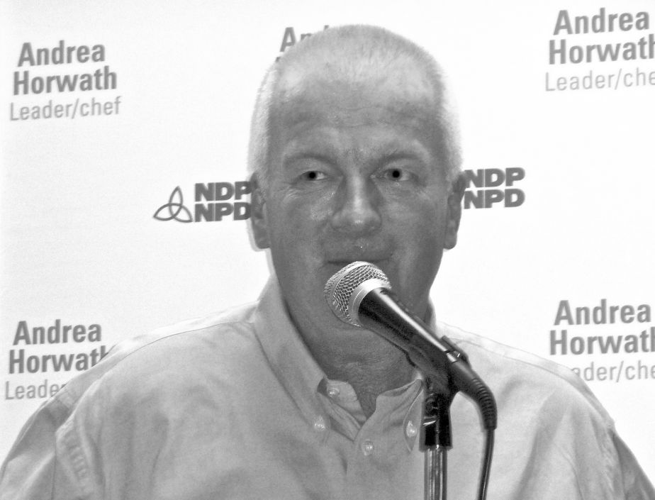 Ontario NDP MPP, Peter Kormos, conducting the fundraising appeal at the 2009 St. Paul's constituency NDP nomination meeting, for the 2009 provincial by-election held the following month.